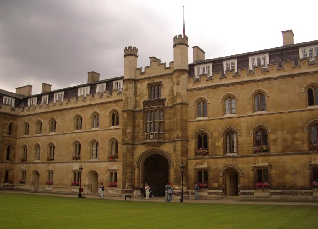 The Main Entrance seen from the passageway leading to Bursars Garden.